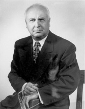 Orrice Abram Murdock, Jr.